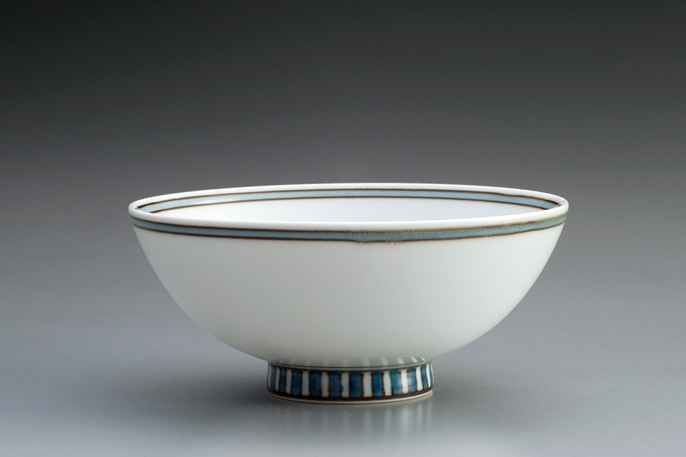 Ricebowl "KINOKAWA" (1977), Masahiro Mori (ceramic designer) designed